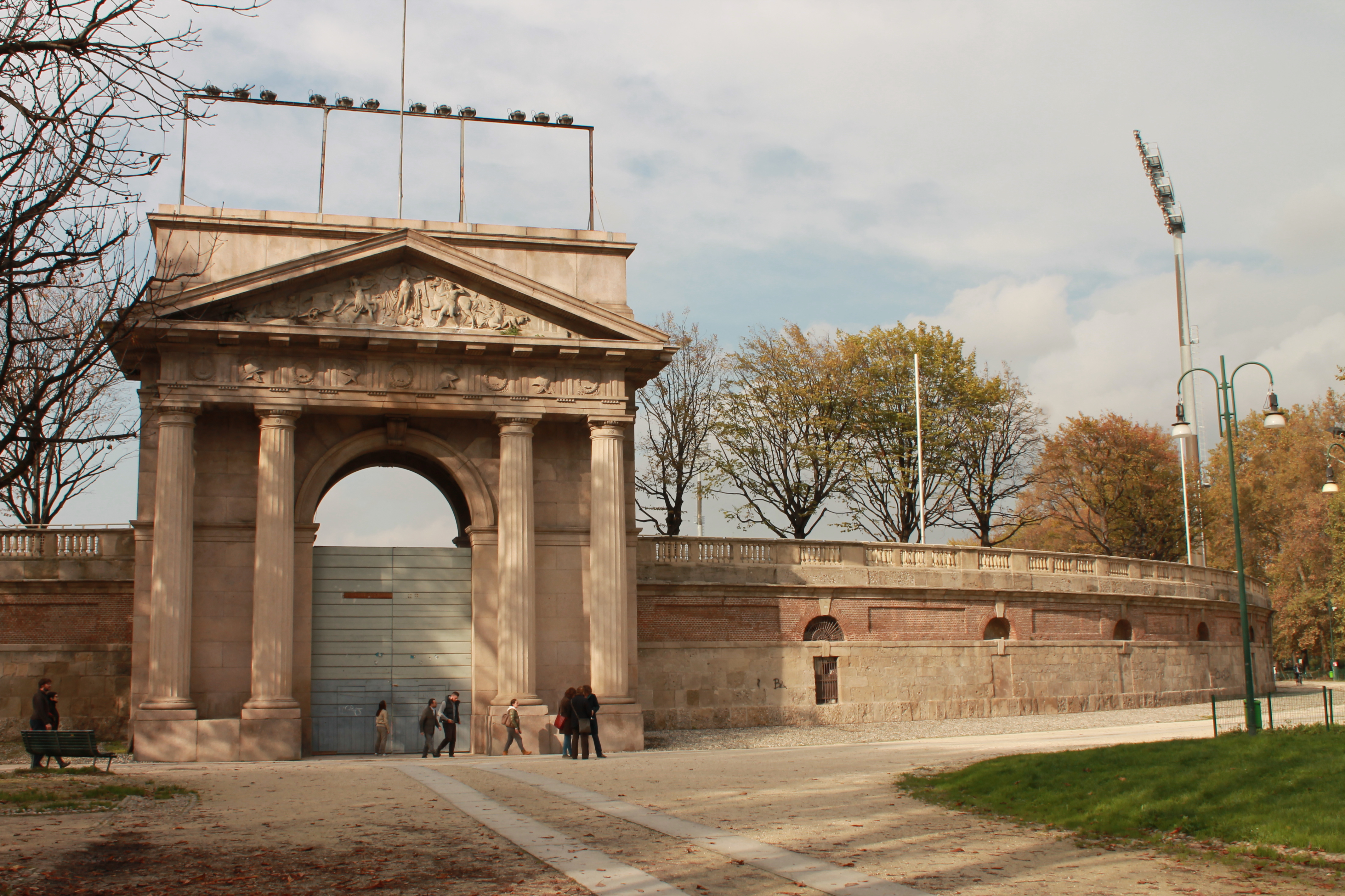 Arena Civica di Milano